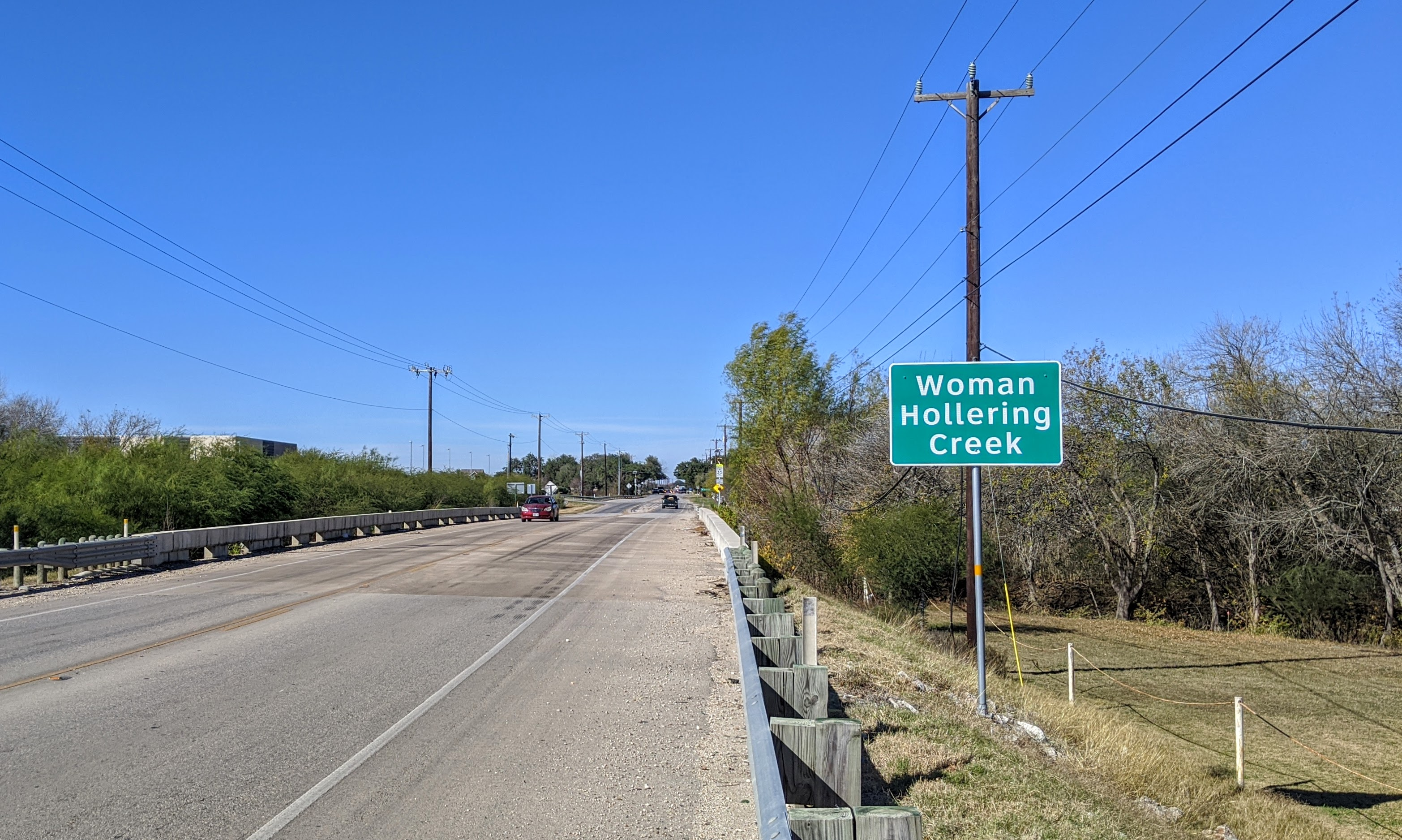 Bridge and road sign at Woman Hollering Creek, also known as Womans Hollow Creek, Schertz, Bexas County, Texas, on highway F. M. 1518 just north of I-10, upstream from the Wat Saddhadhamma Thai Buddhist temple's meditation garden pond on the creek.